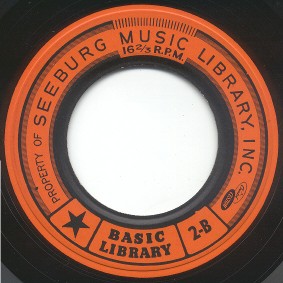 Label of a 1959 Seeburg "Basic" Series 16 rpm record.